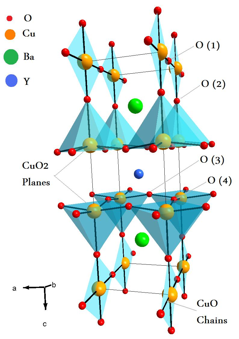 Unit Cell Structure of YBa2Cu3O7 compound using polyhedrons to denote relationship of oxygen atoms to the metal atoms.